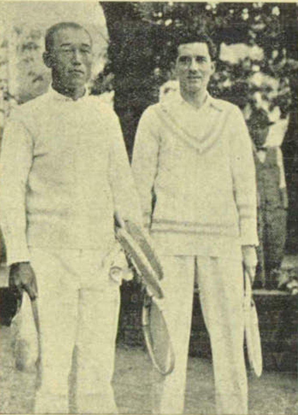 Tennis players Jiro Sato of Japan and Jacques Brugnon of France